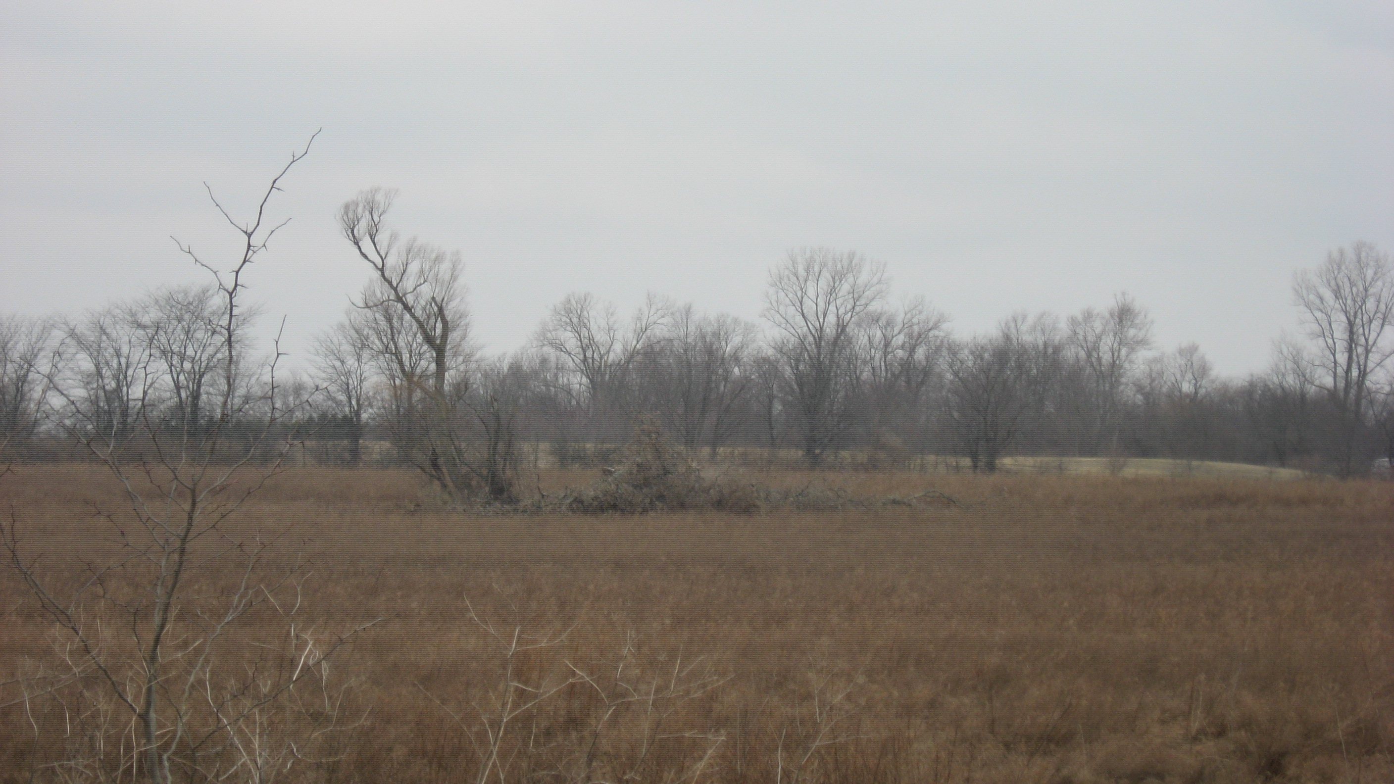 View from the east-southeast of the Jackson Mound, located in Deer Creek State Park northeast of Pancoastburg in Madison Township, Fayette County, Ohio, United States. Built by the prehistoric Adena culture, it is an archaeological site and listed on the National Register of Historic Places.